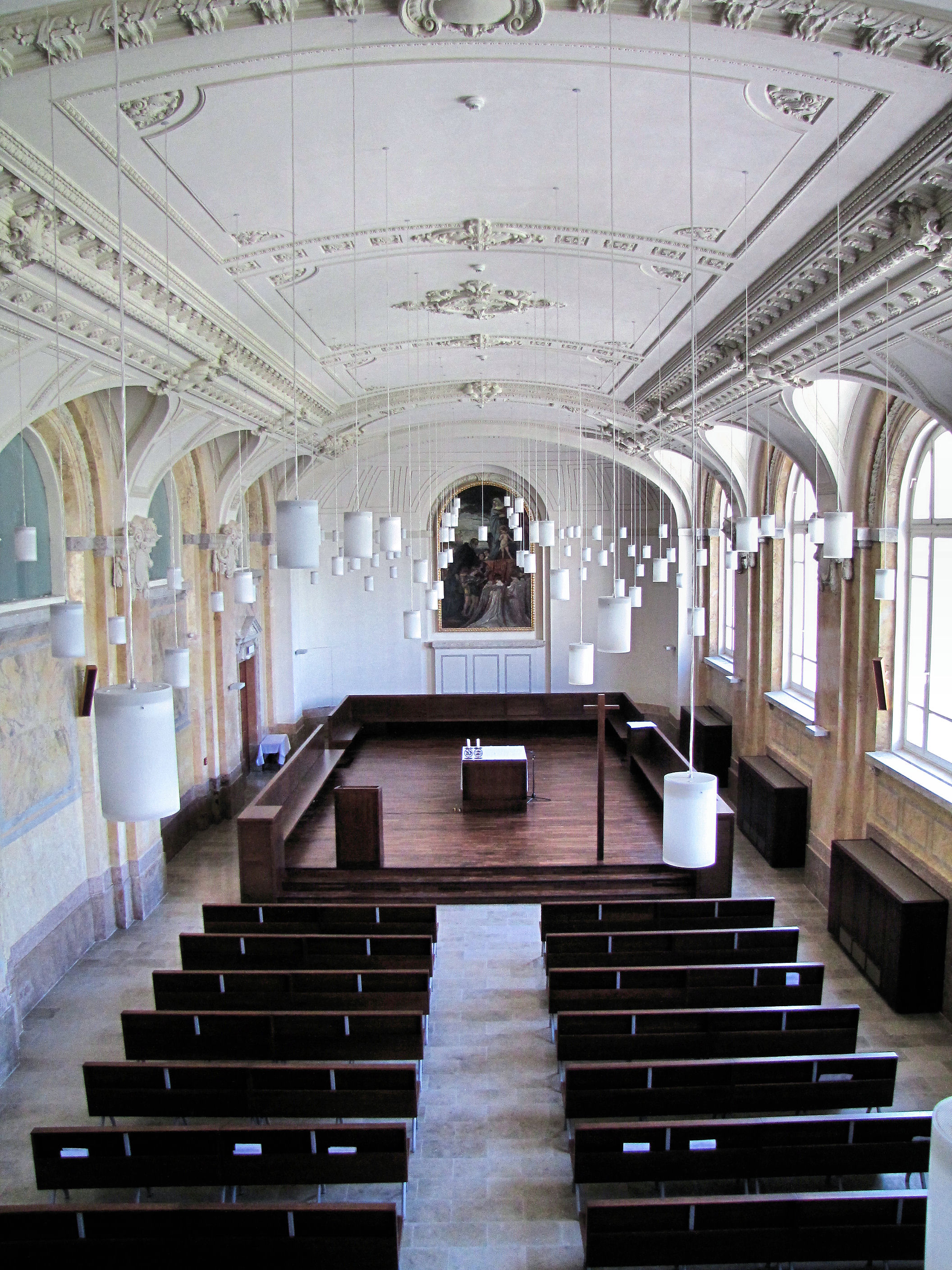 Piarist Center (High School), Budapest, Március 15. Square. Chapel interior.Unknown